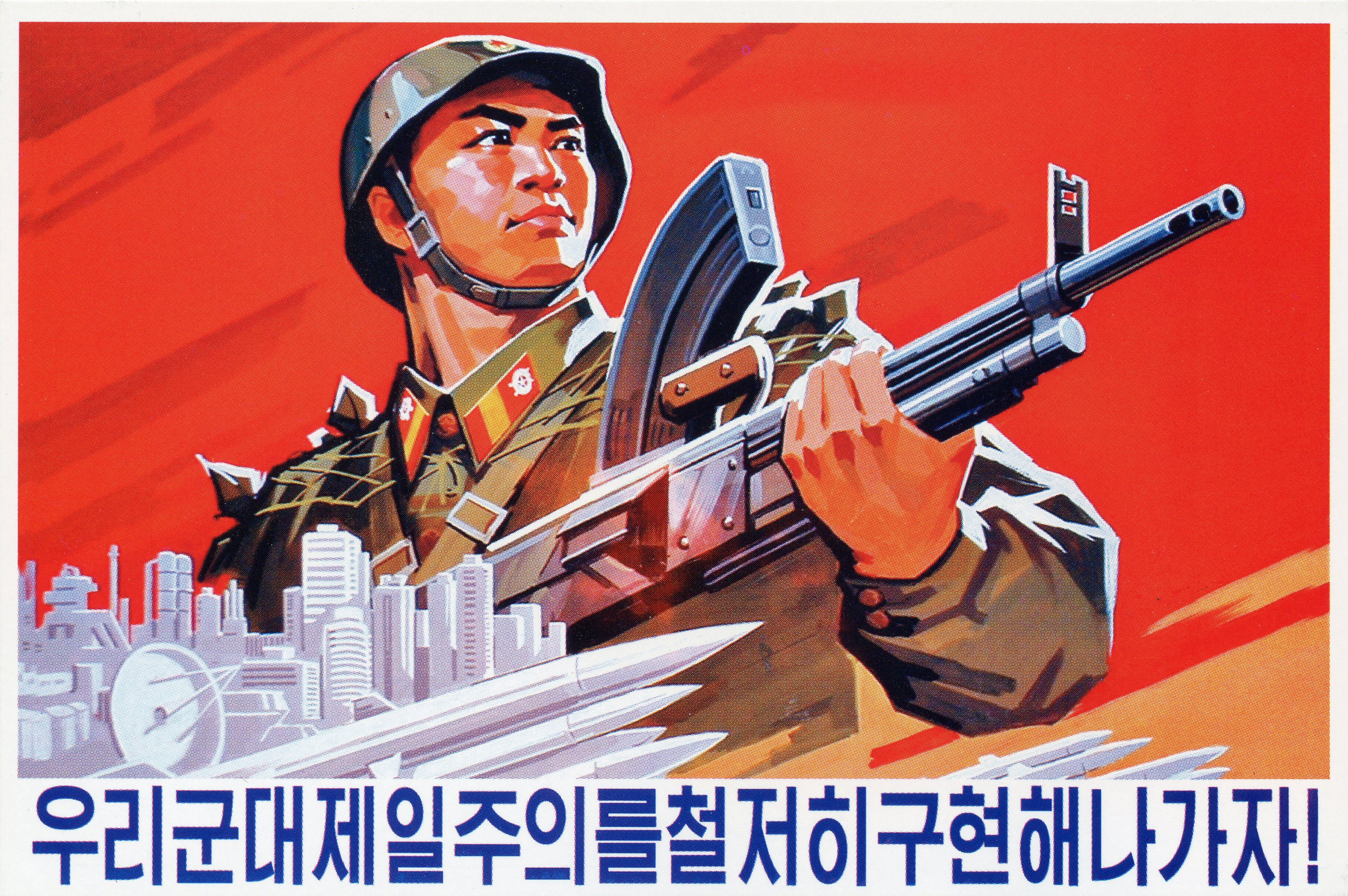 Postcard from the DRPK (North Korea)